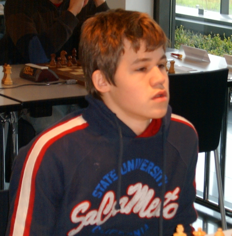 Magnus Carlsen, Norwegian chess grandmaster